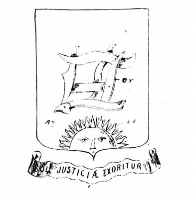 Bachiler coat-of-arms. Hutchinson, Peter: "The coat of arms is real, even if not granted by the College of Heraldry or any other authority. It was included in a 1661 work on the origins of heraldry by Sylvanus Morgan– a four-volume The Sphere of Gentry; deduced from the principles of nature; an historical and genealogical work of arms and blazon. In heraldic terms, the Bachiler coat of arms is described as Vert, a plow in fess; in base the sun rising, or, meaning that the field (face of the shield) was green in color, with a plow aligned across its center portion and the image of a sun (in gold) rising from its base." By Sylvanus Morgan, re-produced in 1898 - original publication in 1661